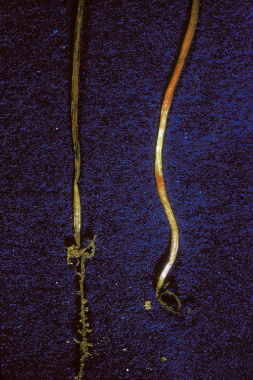 Fusarium cortical stem rot (Symptoms) Fusarium avenaceum (Corda) Sacc. damping-off (left) and heat injury (right), forest nursery pest Image location: United States